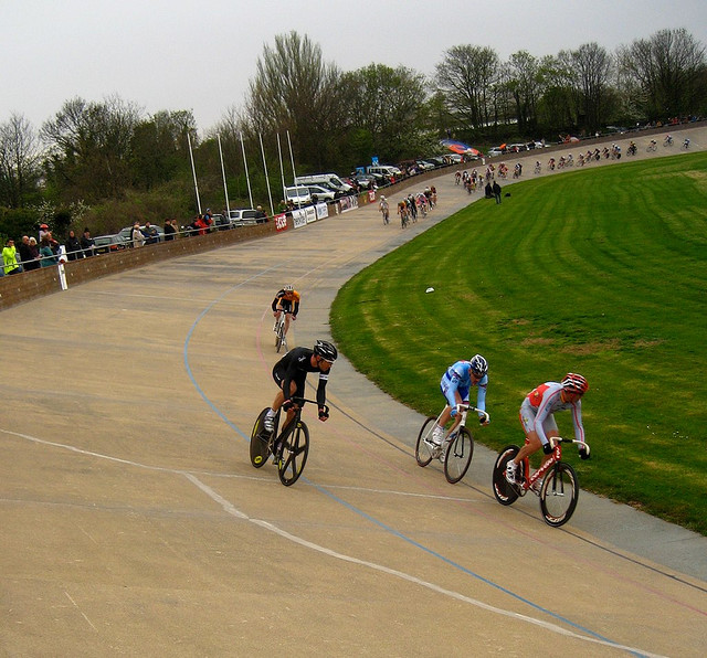 Points race at Herne Hill